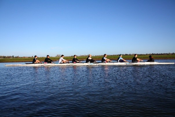 Wadham Men rowing on the Godstow Stretch